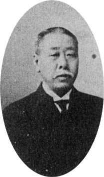 Wataru Watanabe, Director of Koshu Gakko.